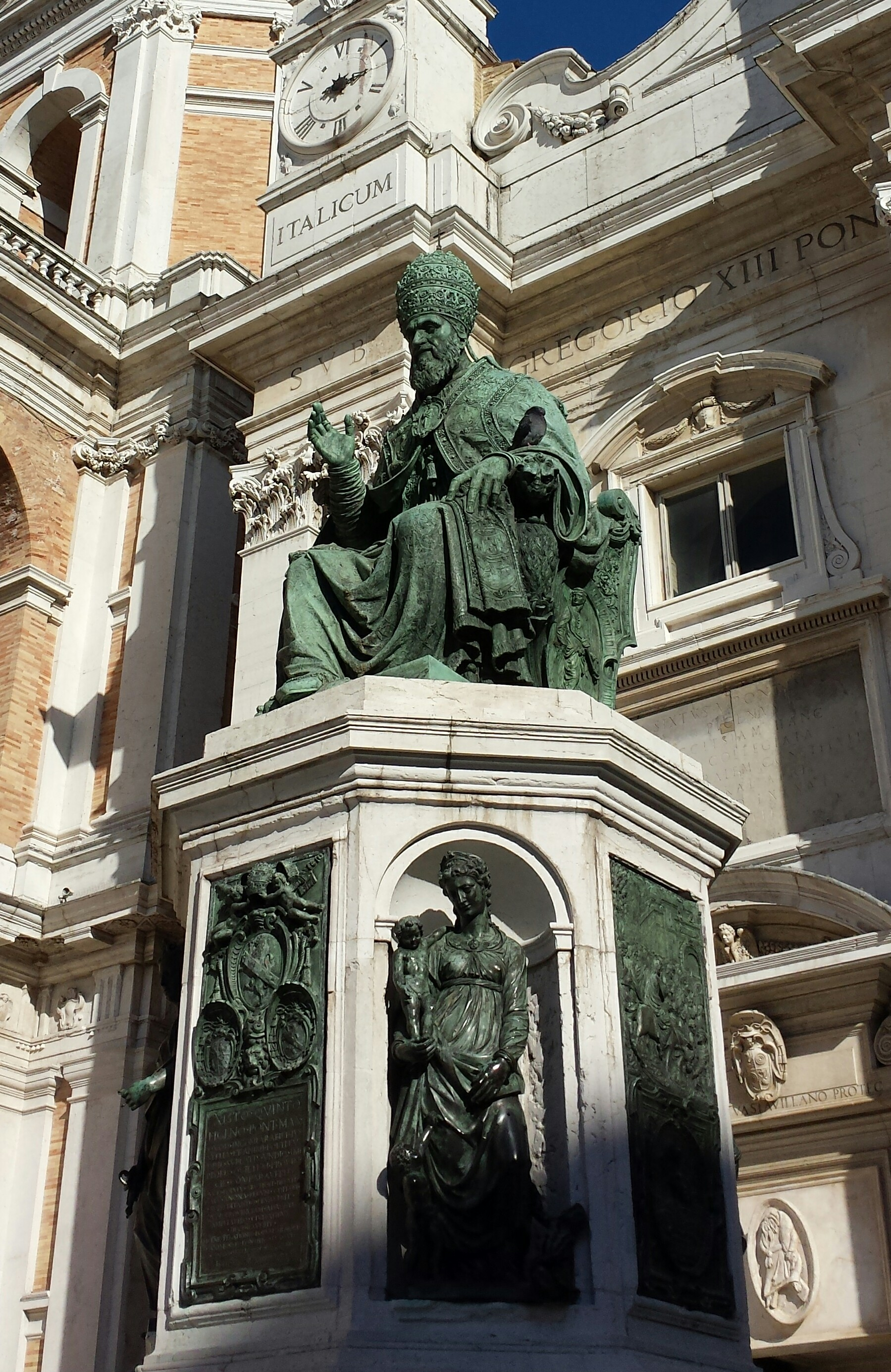 Antonio di Bernardino Calcagni e Tiburzio Vergelli Statua di Sisto V benedicente (1589) Loreto, Sagrato del Santuario